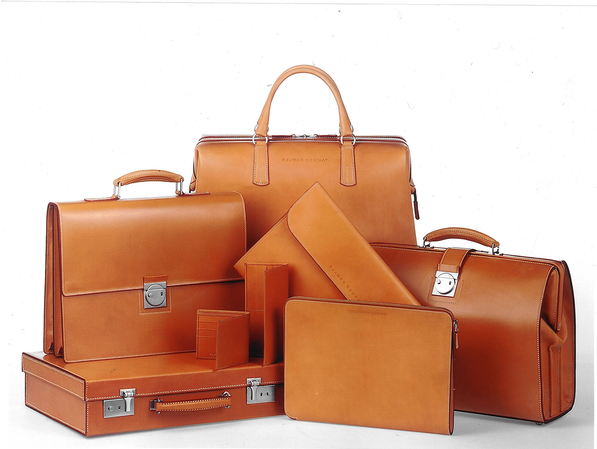 Examples of Current day luggage